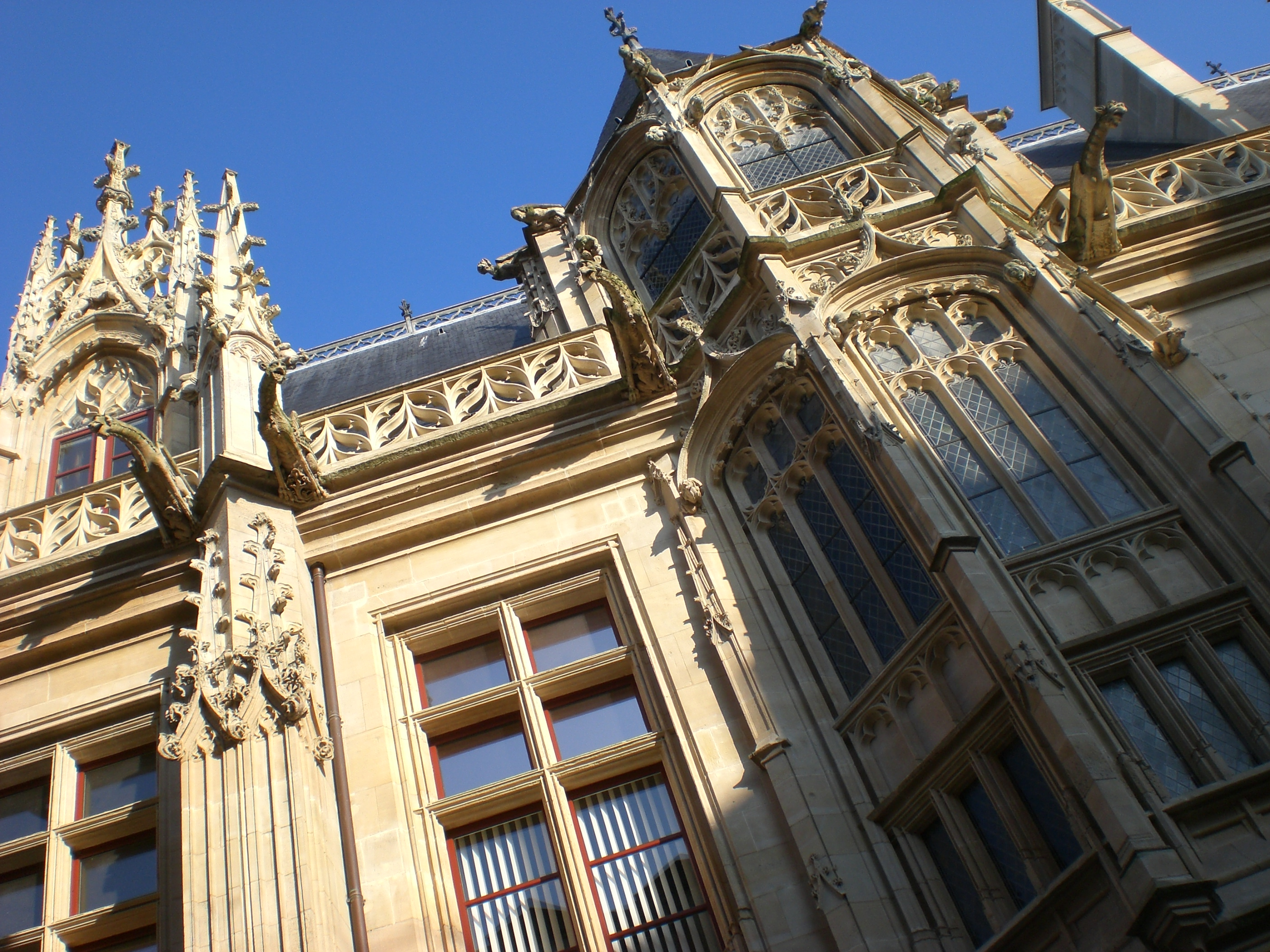 Rouen, Palaice of Justice, 1499-1550